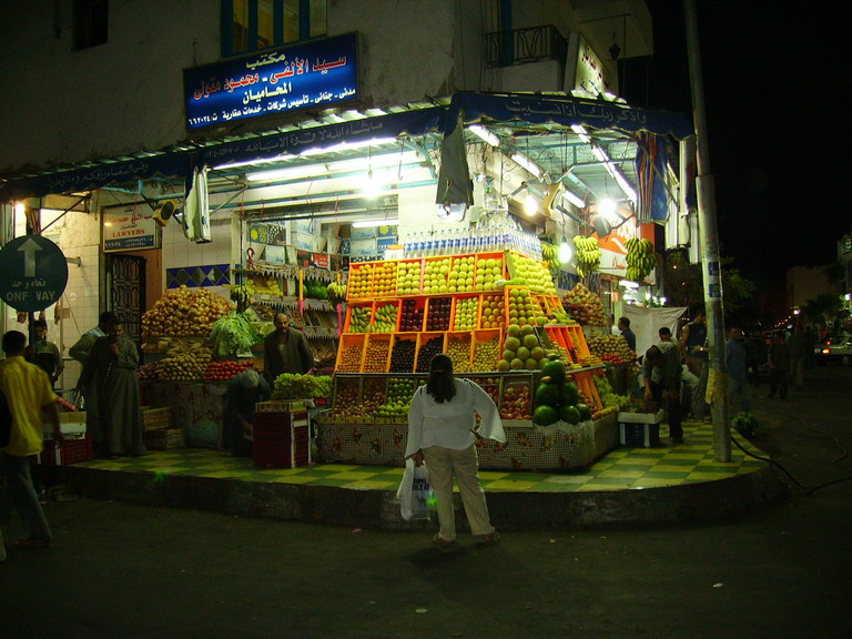 Sharm el-Sheikh - Sharm vecchia